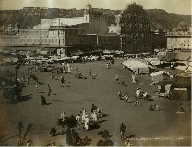 Hawa Mahal, Palace of the Winds, and the Principal Street, Jaipur, c. 1875.